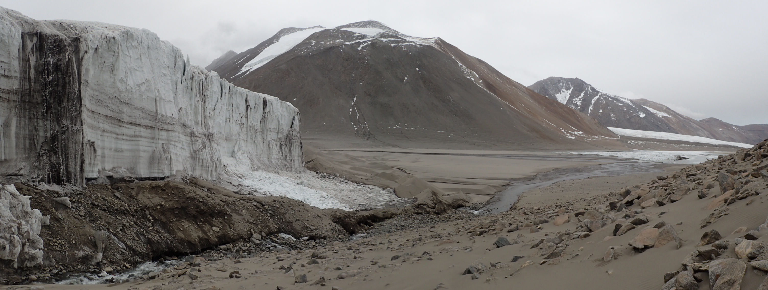 Upper Garwood Valley with terminus of the Joyce Glacier in the left (foreground) and lake Colleen in the right; Garwood Glacier is visible in the background. View towards the east.